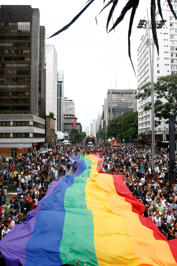 17 Parada Gay de São Paulo reune mais de 4 milhões de pessoas. Sao Paulo, 02/06/2013. Foto Cristina Gallo